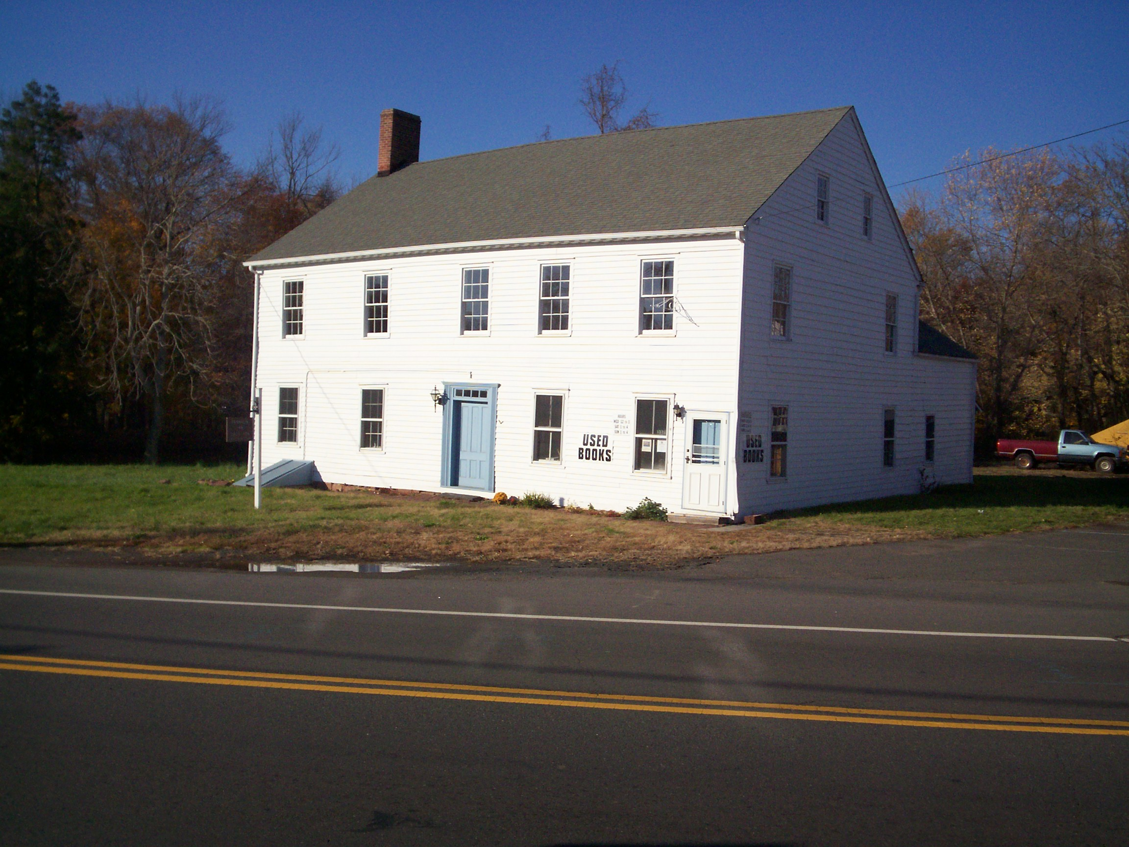 Franklin Inn Richard Arthur Norton (1958- )